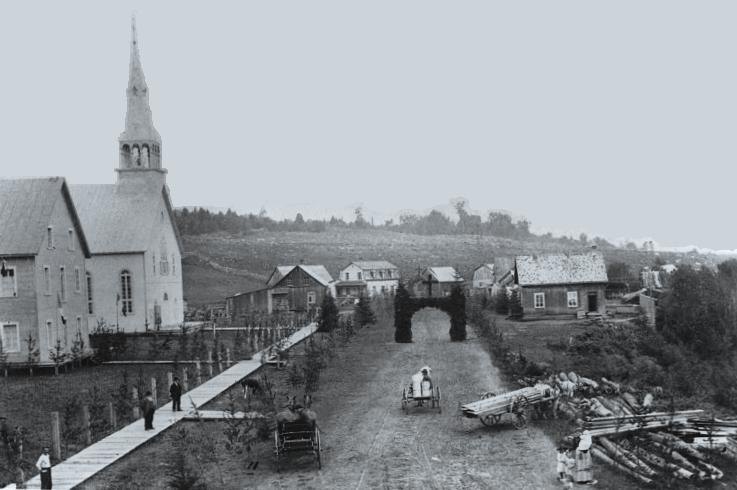 Photograph, Street scene, village of L'Annonciation, QC, about 1890, Anonymous, Silver salts on paper mounted on card - Albumen process - 11 x 16 cm